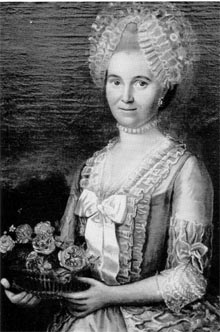 Portrait of Antoinette Boch (1752-1805)